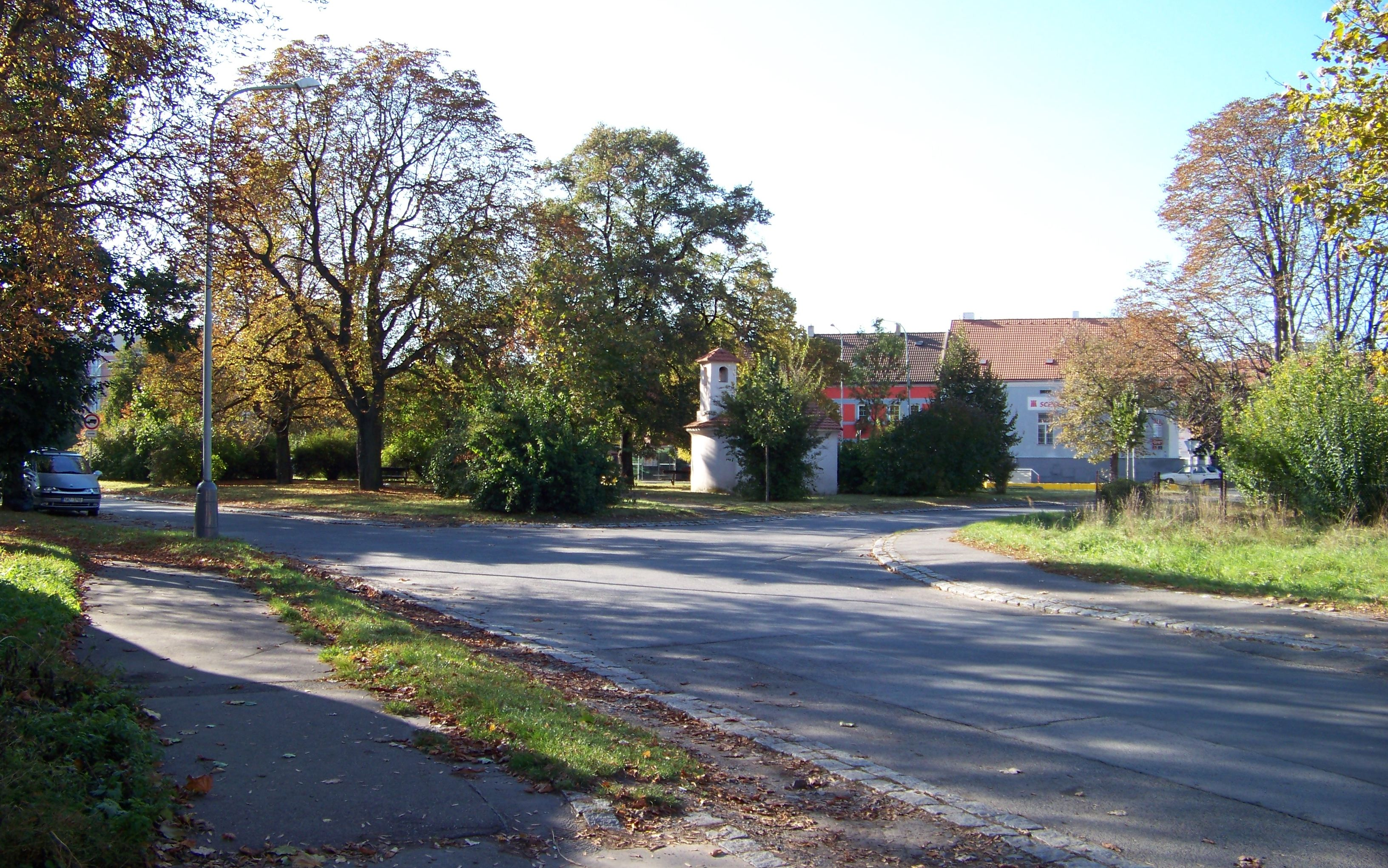 Prague-Malešice, the Czech Republic. Malešické náměstí. s